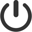 Power Off Icon